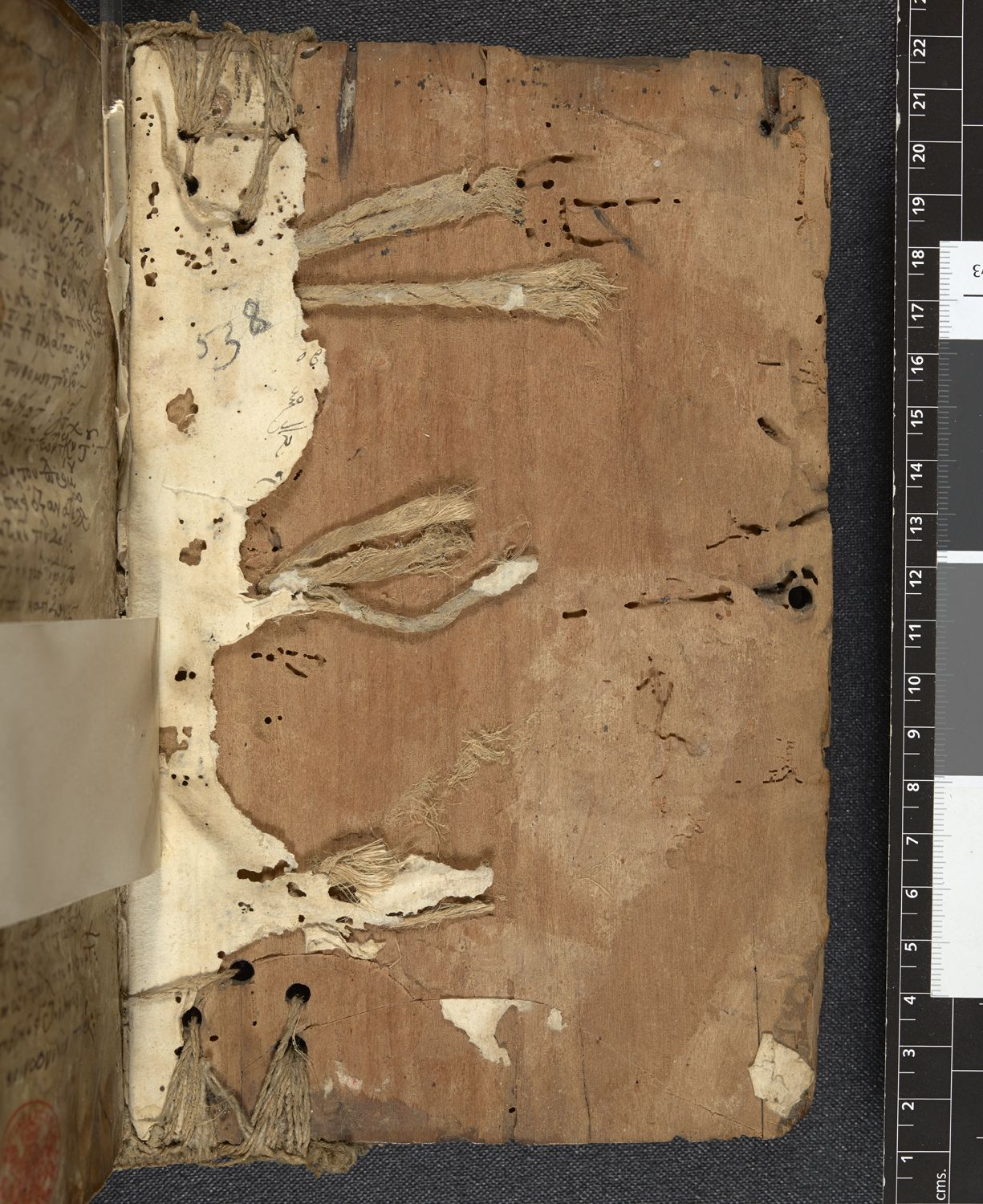 Style: Byzantine; Caption: Lower cover, inside; Colour: Brown; Edge: Unspecified